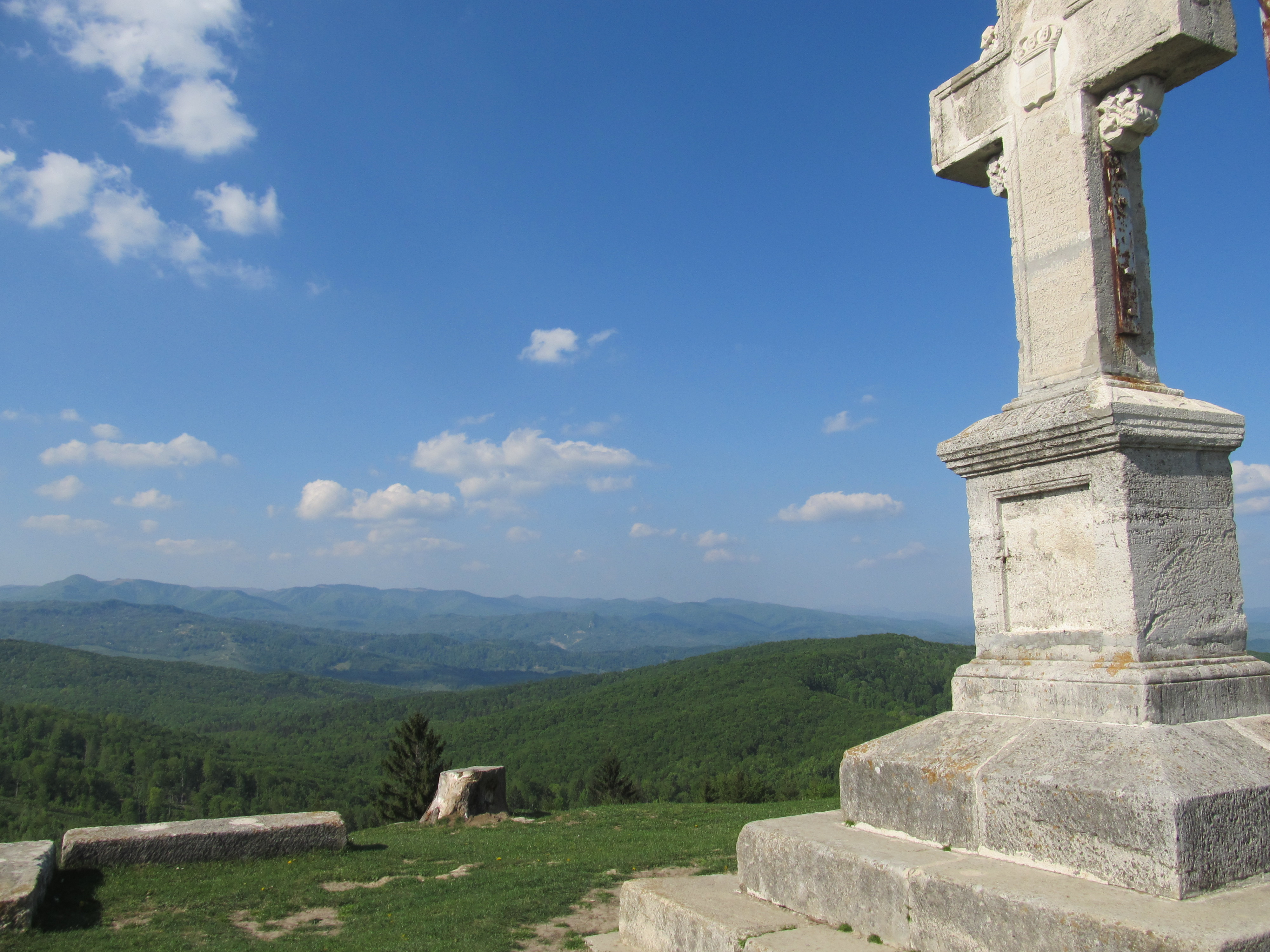 Ruler's Cross, monument erected in 1866 in the Romanian village of Melicești, municipality of Telega, work of architect Paul Focșeneanu.